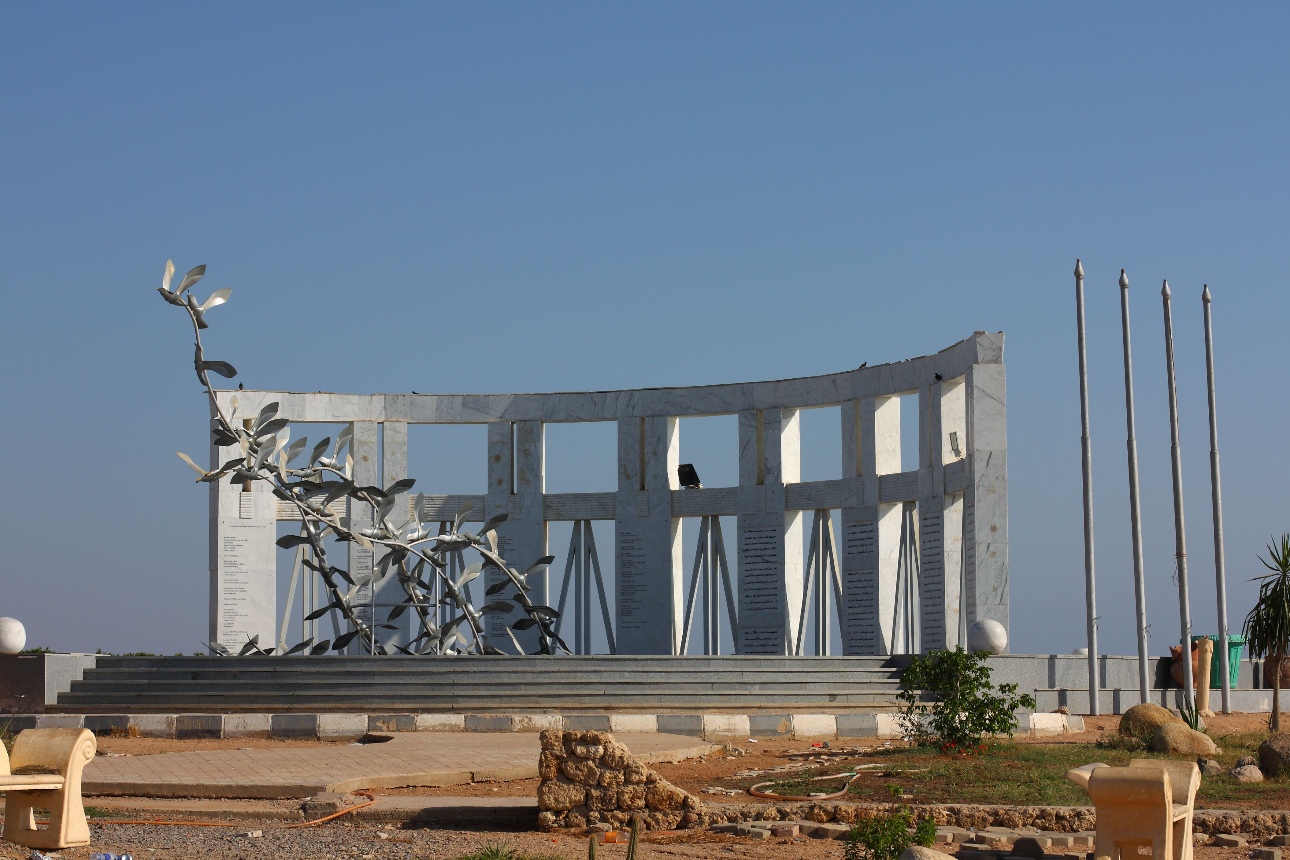 Monument to the victims of the Flash Airlines Flight 604 plane crash in the Gulf of Aqaba 3 January 2004. Egypt, Sharm-El-Sheikh